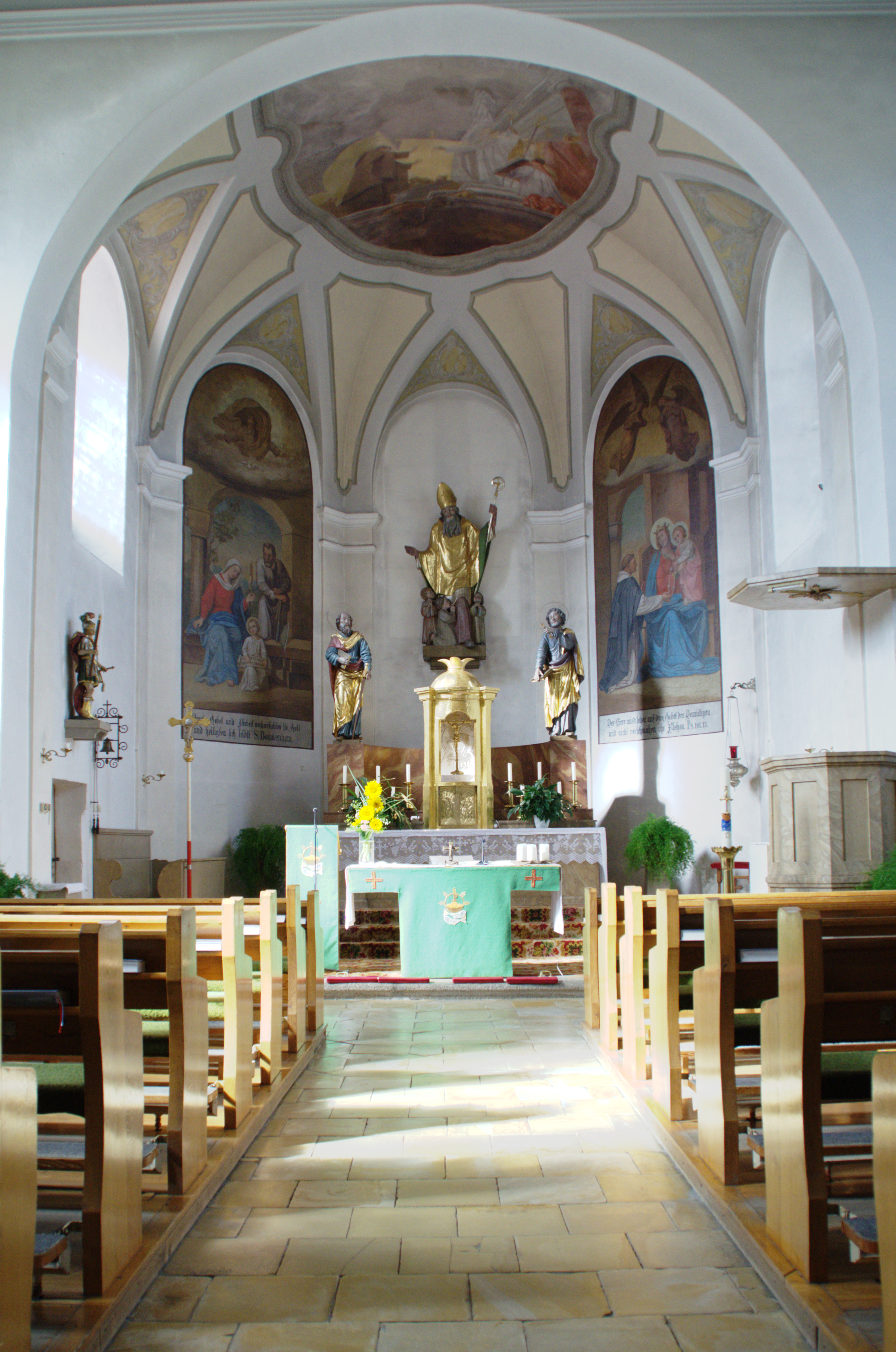 This is a photograph of an architectural monument.